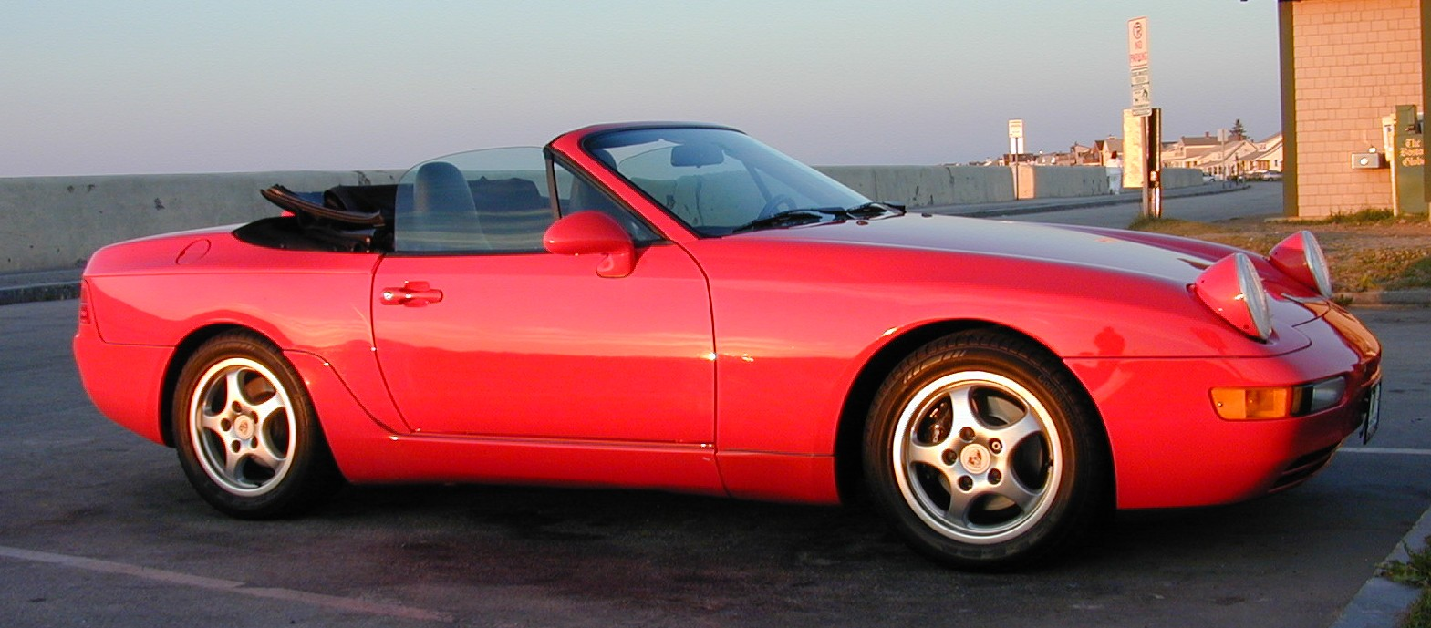 A 1994 Porsche 968 cabriolet, top down, lights up.